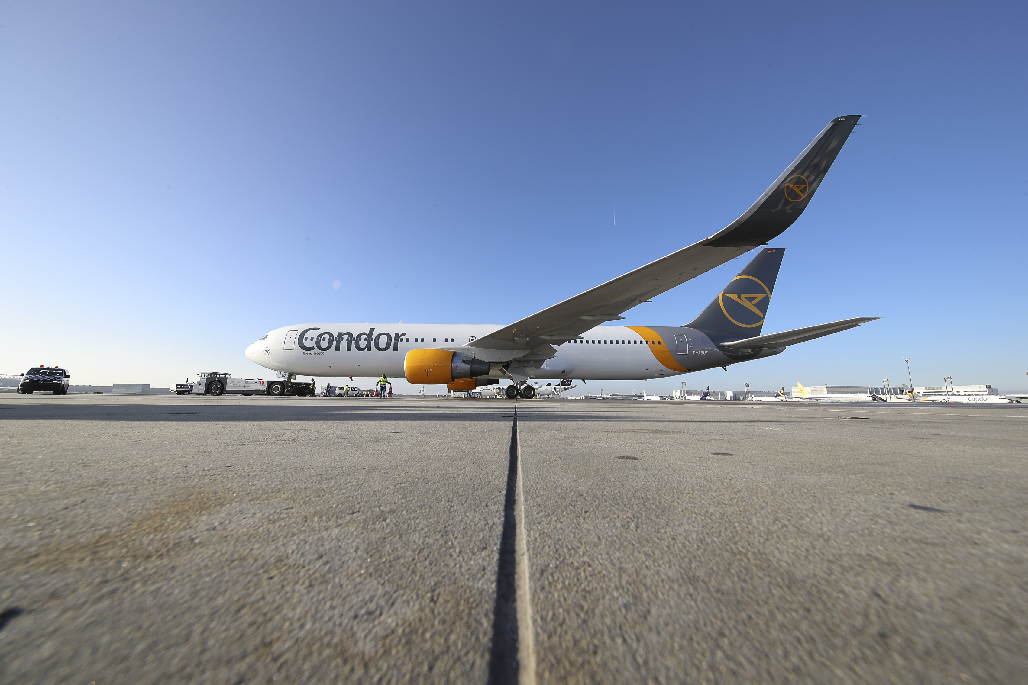 condor 767